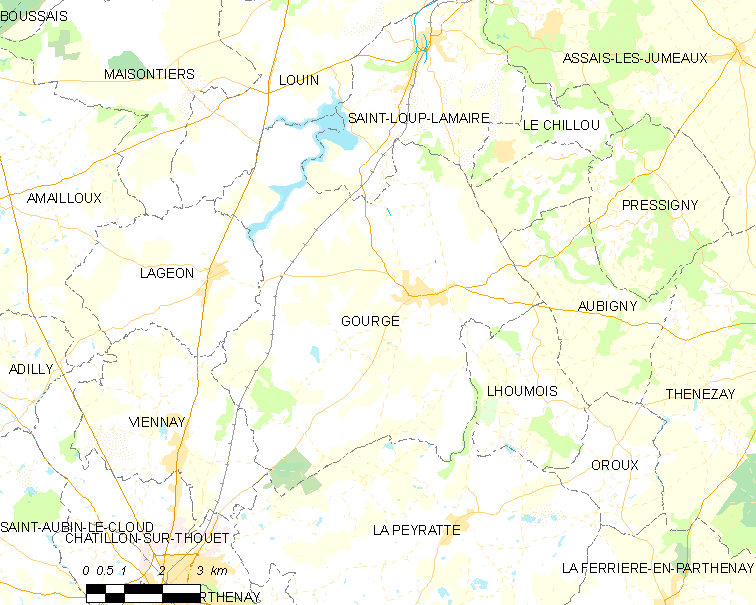 Map of French municipality Gourgé